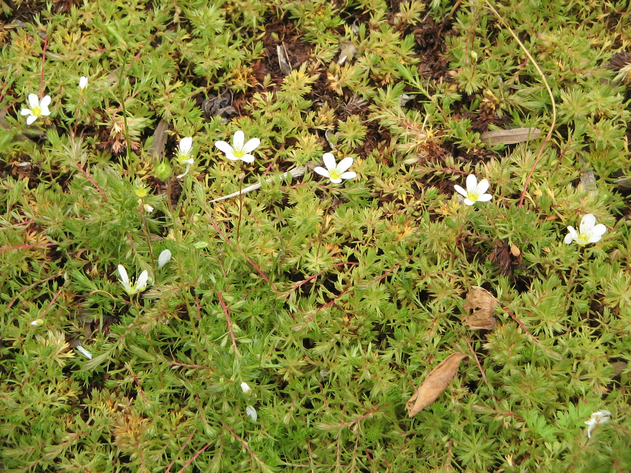 Saxifraga hypnoides